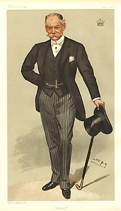 Men of the Day No.0656: Caricature of The Earl of March. Caption reads: "Goodwood"